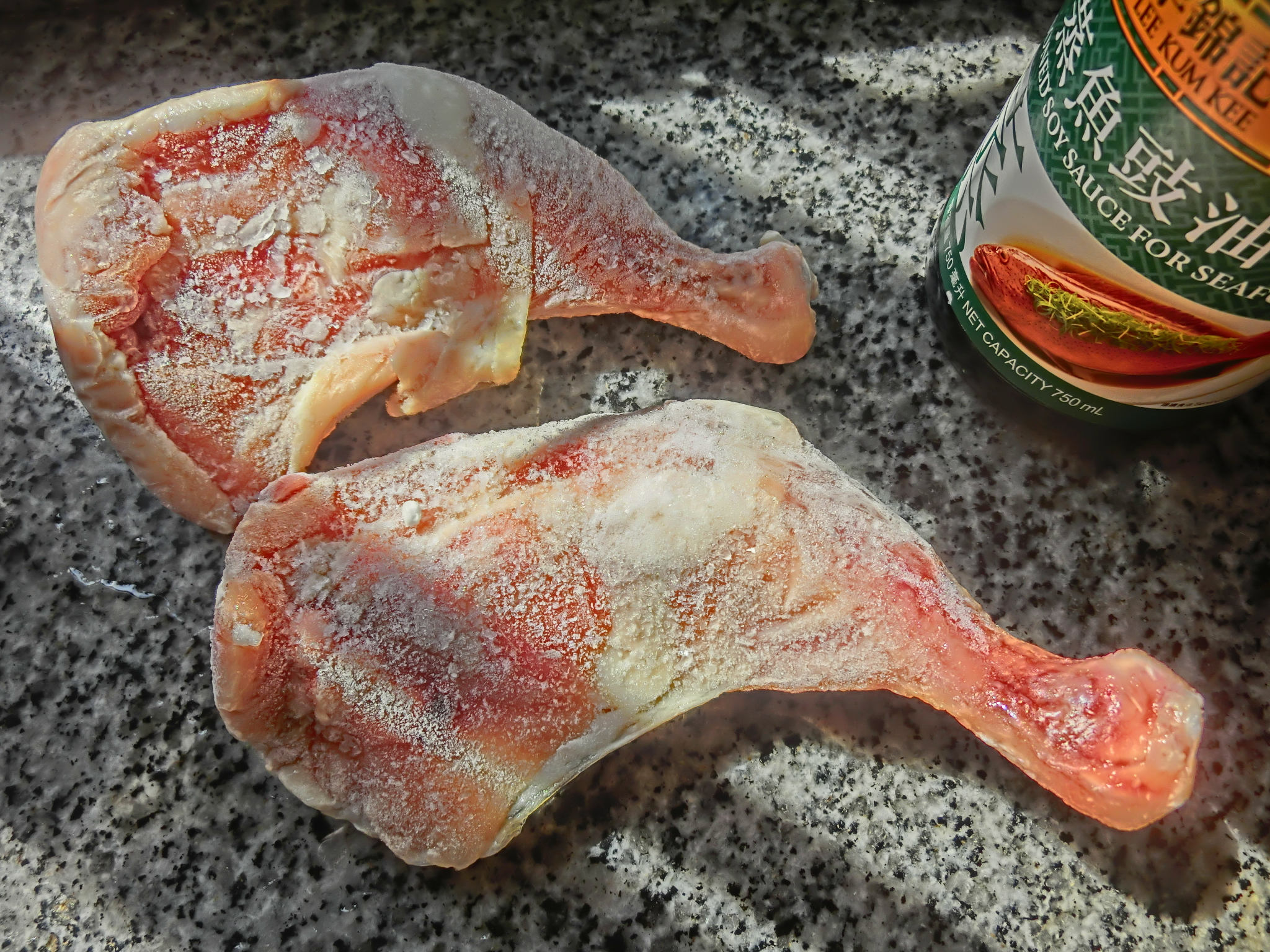 Food of 佳寶食品超級市場, iced chicken legs, Hong Kong Kai Bo Food Supermarket, Hong Kong